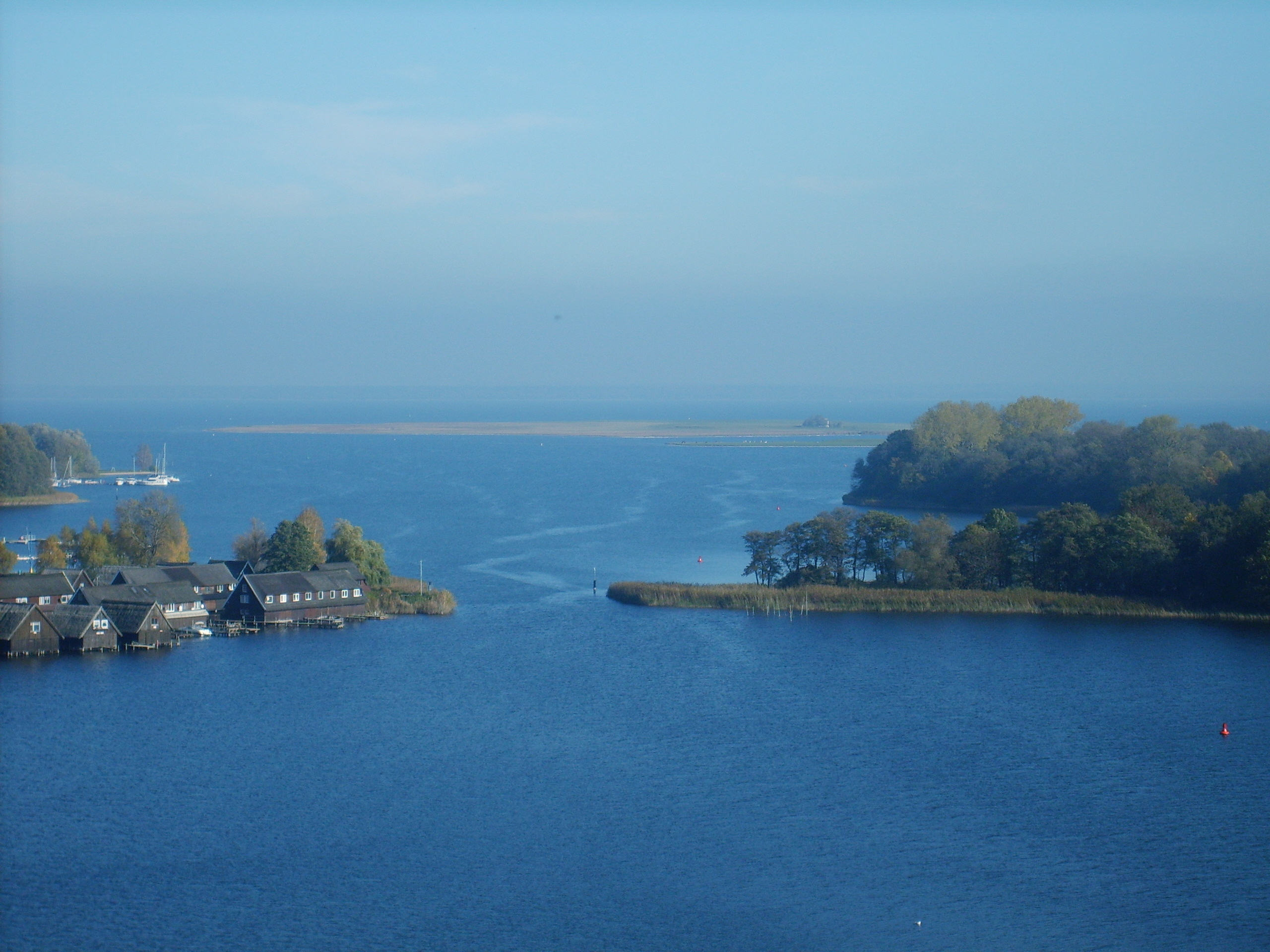 View from St. Mary's Church on the port of Röbel on the Müritz.